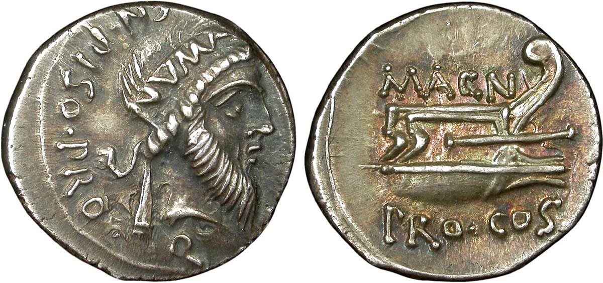 Denier à l'effigie de Pompée Date : c. 49-48 AC. Description avers : Tête de Numa Pompilius à droite, ceinte d’un bandeau inscrit Description revers : Proue de galère à droite . Traduction revers : “Magnus pro consul”, (Le grand, Pompée proconsul) .